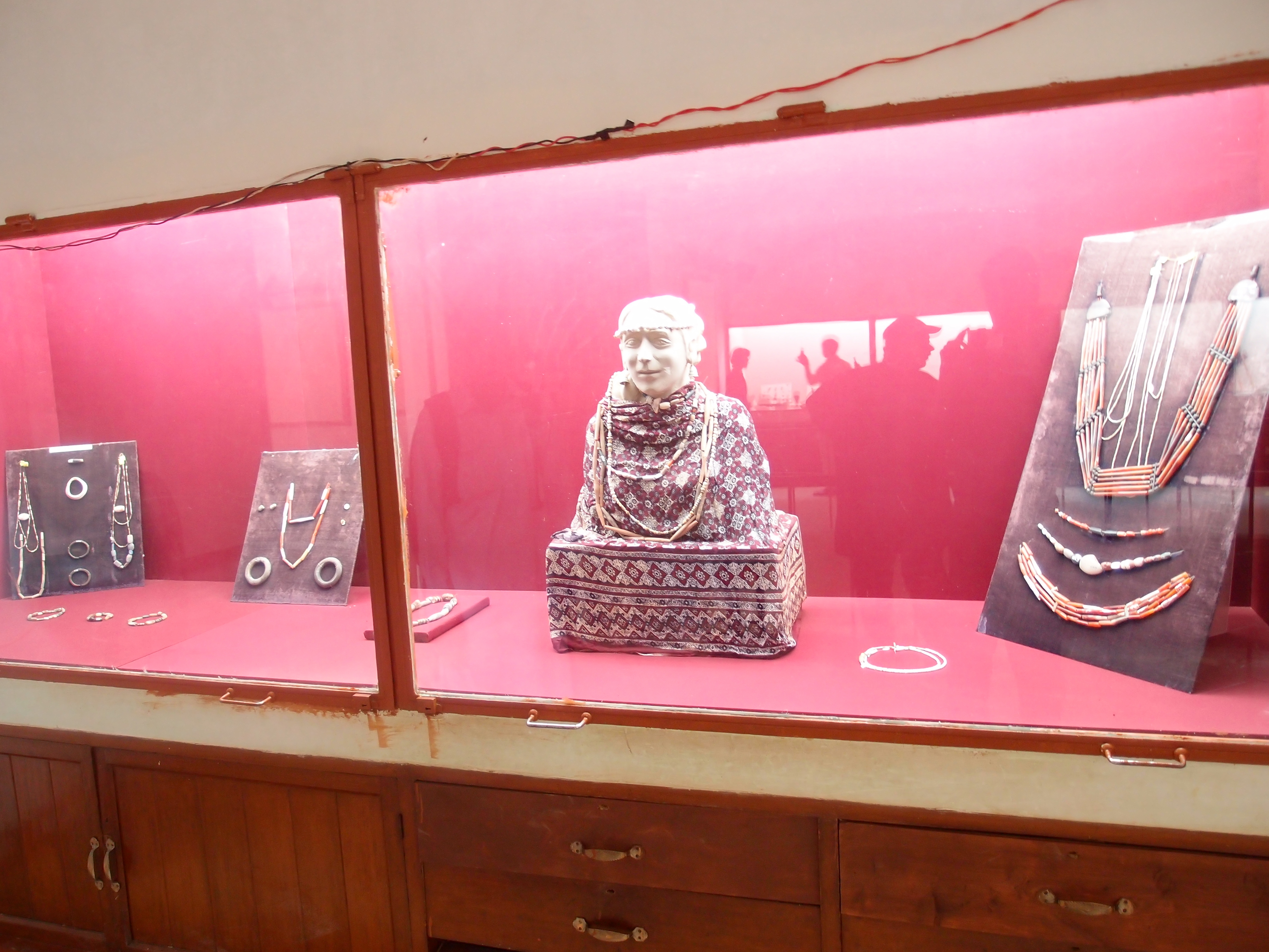 Mohenjo-daro museum relics